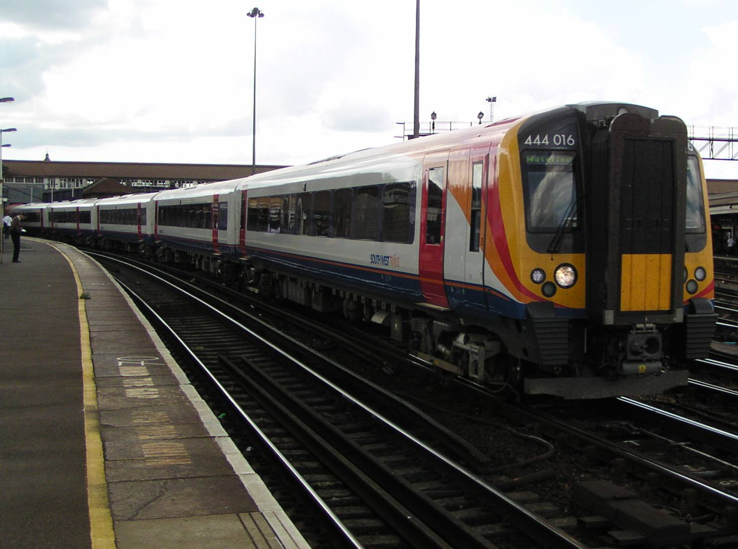 BR Class 444, no. 444016 passing non-stop through Clapham Junction on 21st August 2004 with a service to London Waterloo.